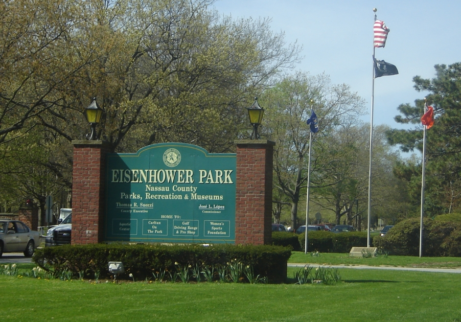 Looking north at the main (southern) entrance to Eisenhower Park in East Meadow, NY.